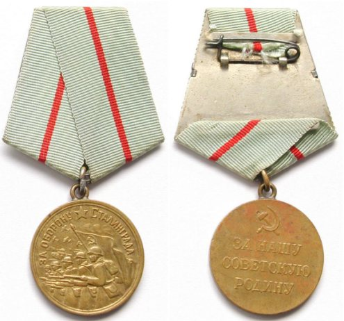 Soviet Medal for the defence of Stalingrad (Медаль за оборону Сталинграда)